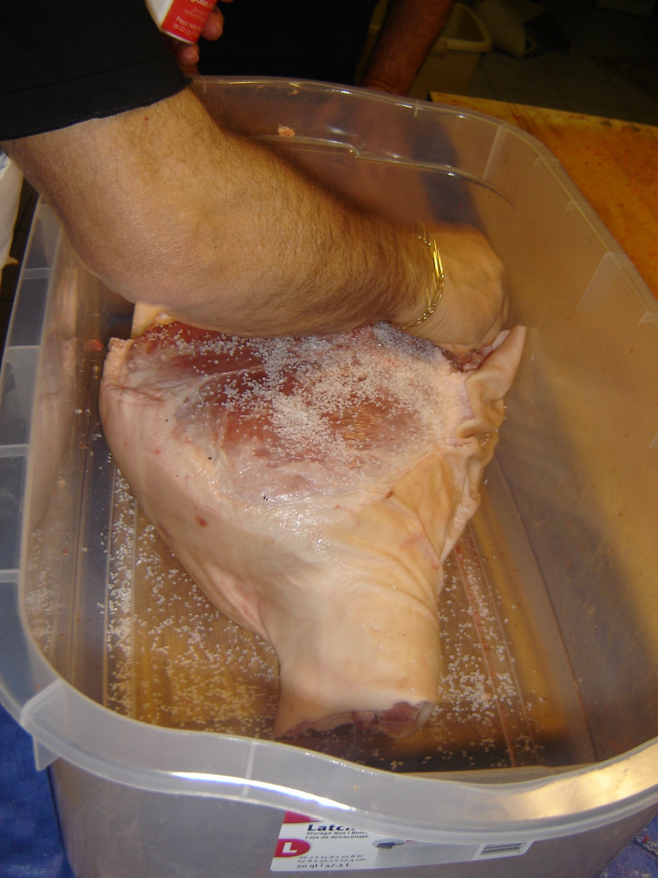 Sea salt being applied to prosciutto cut legs. Photo taken in February 2007 by Deathworm 05:15, 1 May 2007 (UTC)